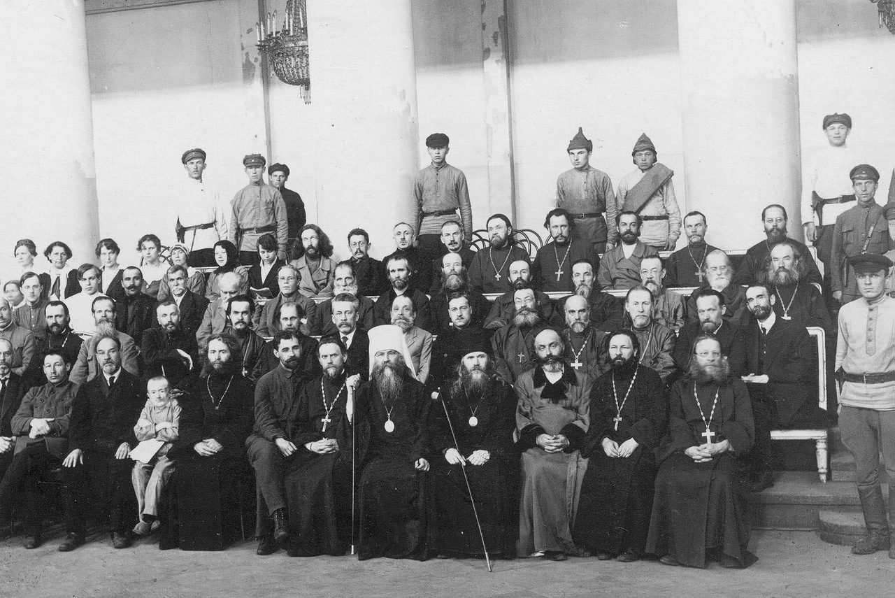 Подсудимые по делу об изъятии церковных ценностей (июнь 1922г., ЦГАКФФД)